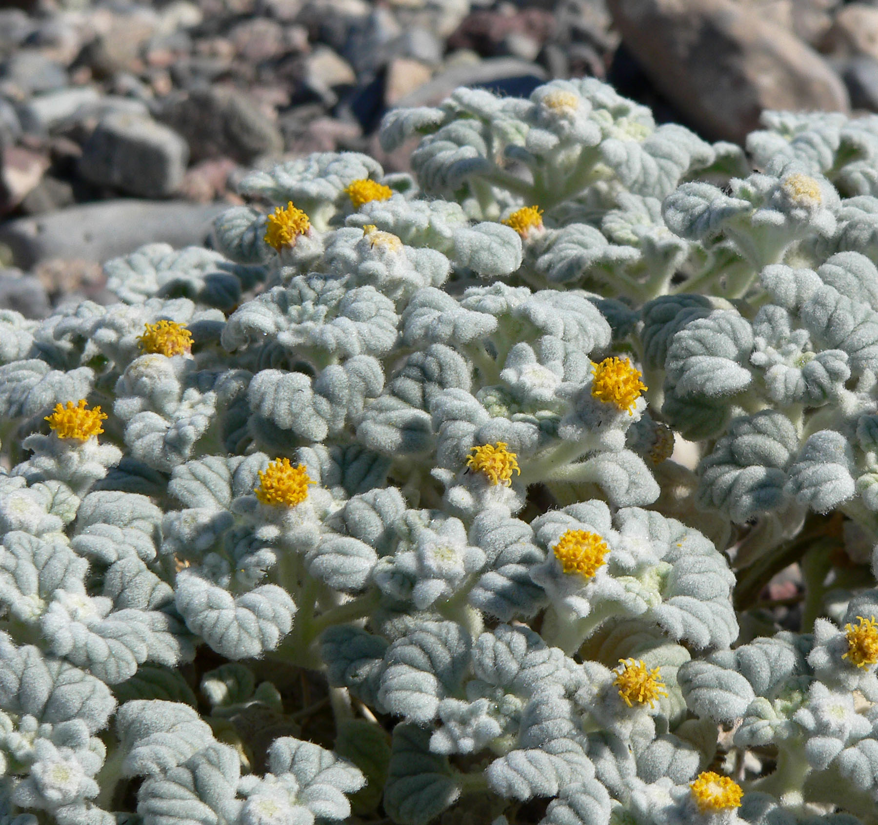 Psathyrotes ramosissima in Furnace Creek Wash, Death Valley, California